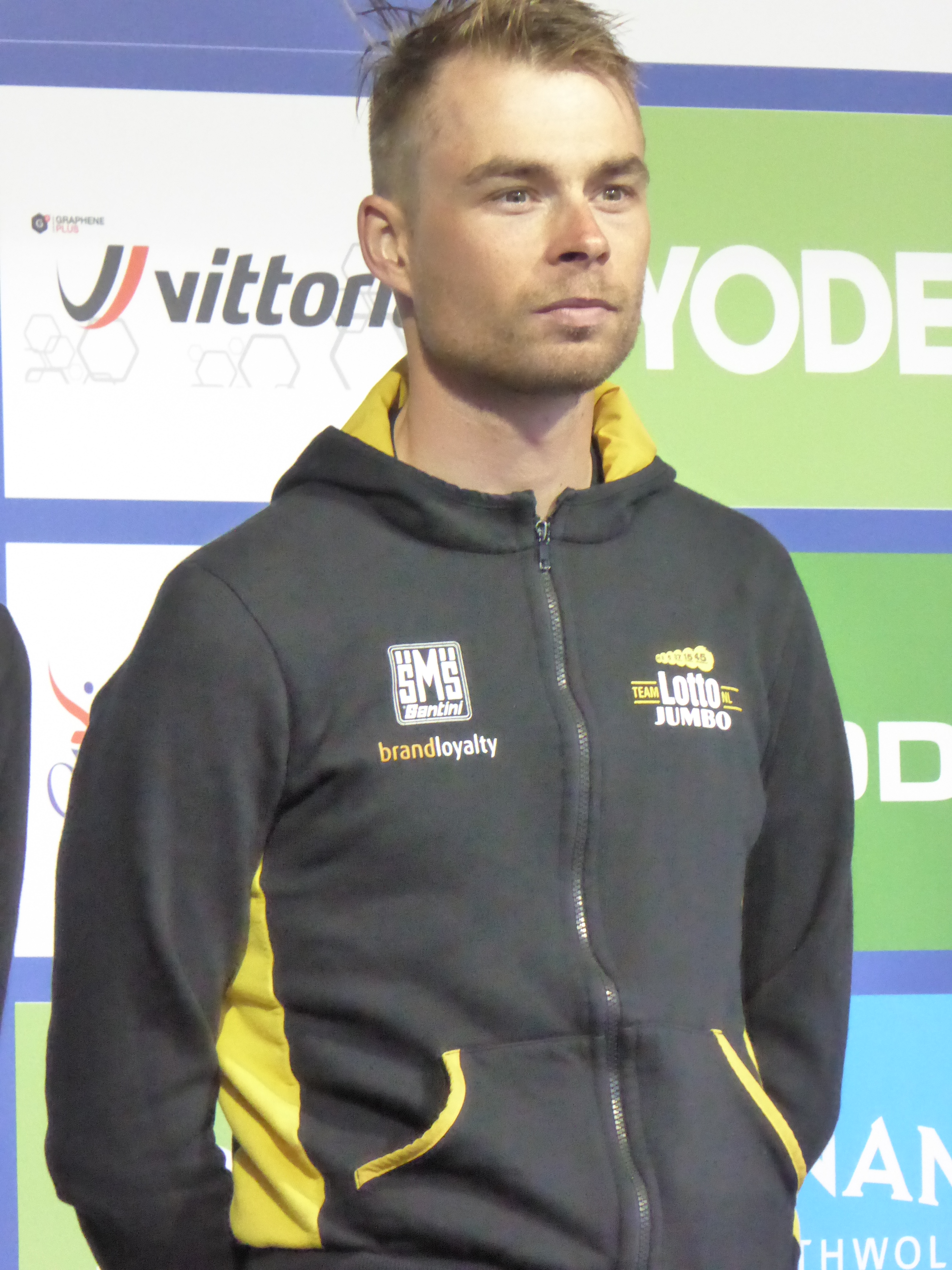 Bert-Jan Lindeman (Team LottoNL-Jumbo), pictured at the 2016 Tour of Britain team presentation in Glasgow on 3 September 2016.